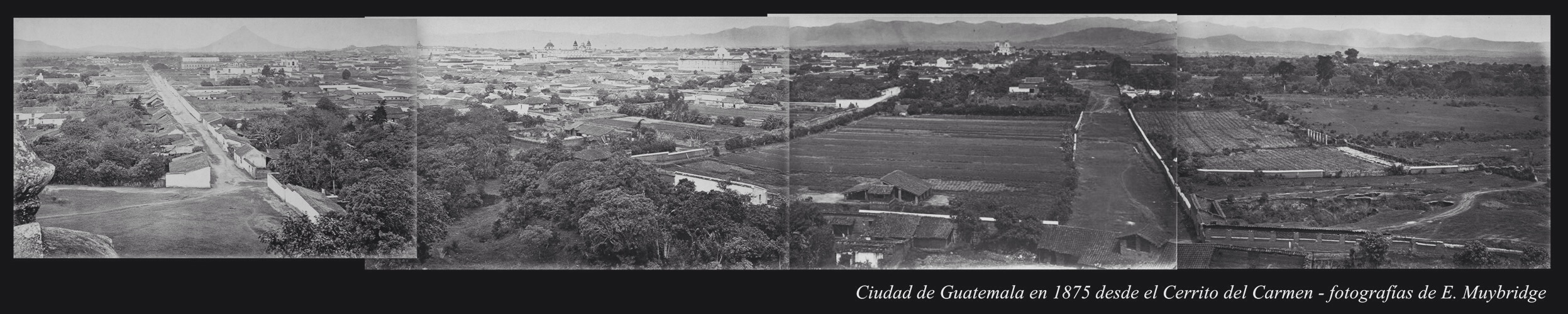 Guatemala City in 1875